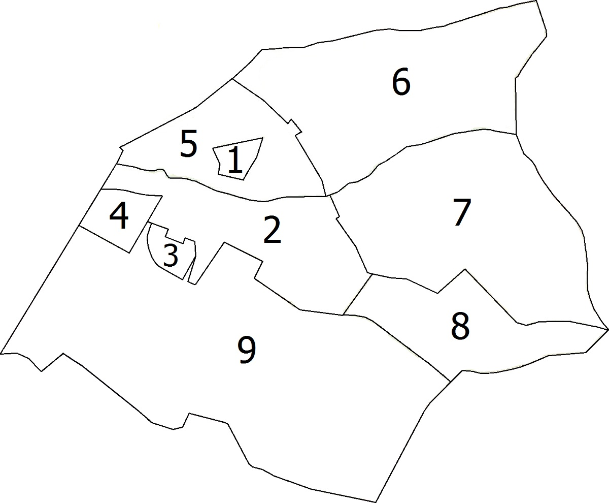 Parts of Budapest District XVII 1 - Akadémiaújtelep 2 - Rákoskeresztúr 3 - Madárdomb 4 - Régiakadémiatelep 5 - Rákosliget 6 - Rákoscsaba-Újtelep 7 - Rákoscsaba 8 - Rákoskert 9 - Rákoshegy